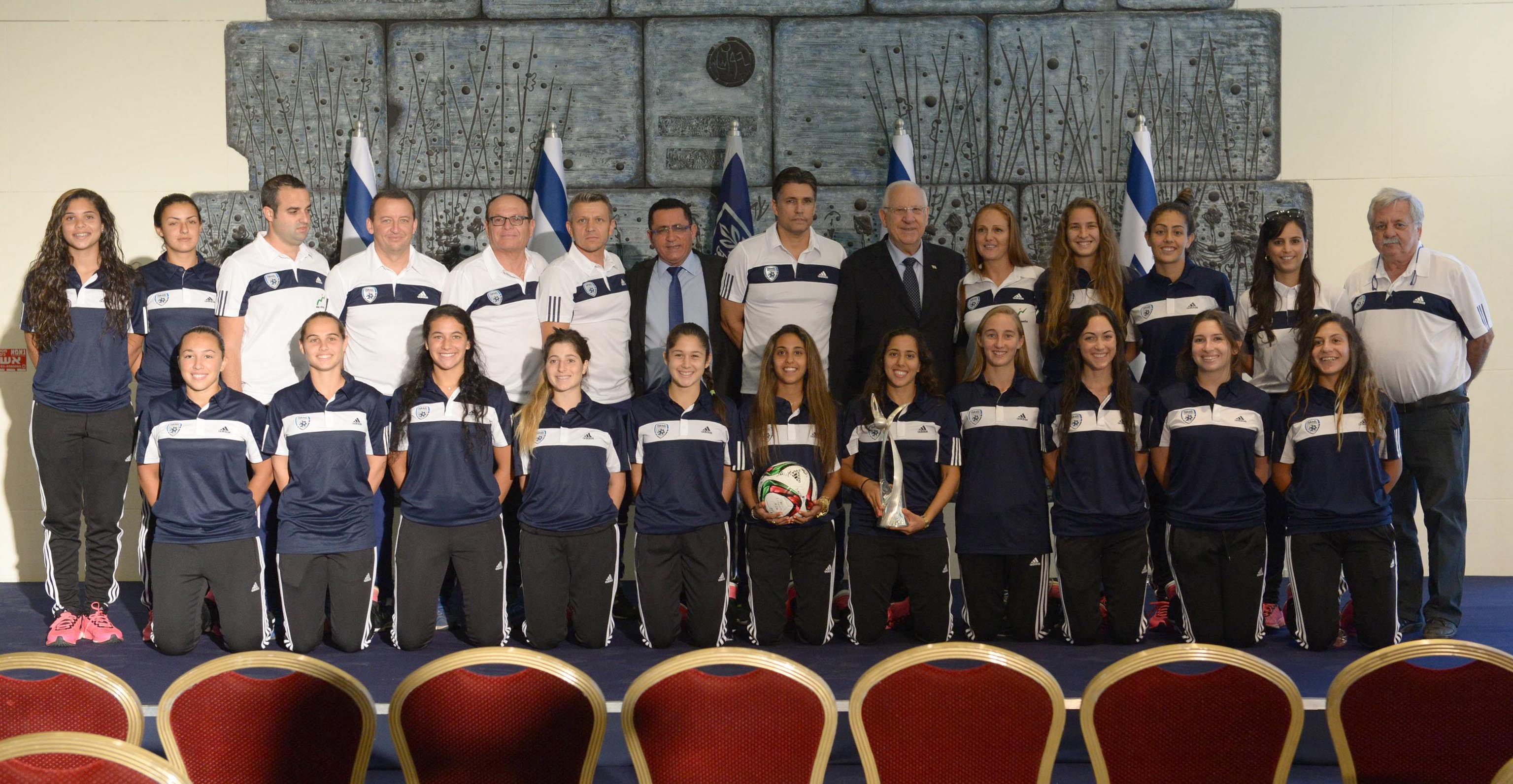 Reuven Rivlin hosted, in the president’s residence, Israel women's national under-19 football team. Monday, July 13, 2015. Photo credit: Mark Neiman / GPO.